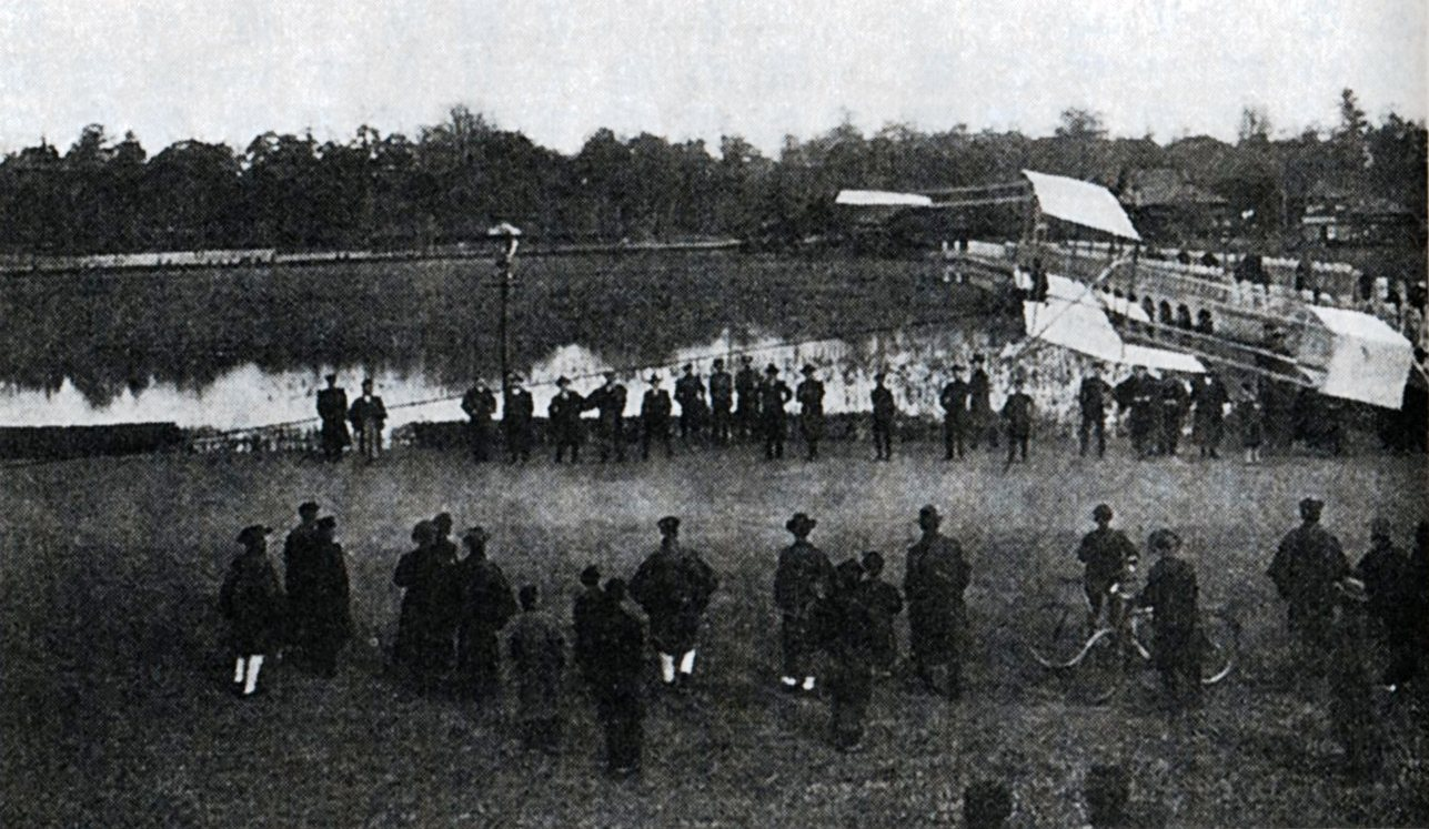 The glider which Yves Paul Gaston Le Prieur flew in Tokyo, 1909